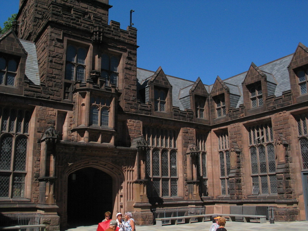 Courtyard of East Pyne Hall, Princeton University, Princeton, New Jersey